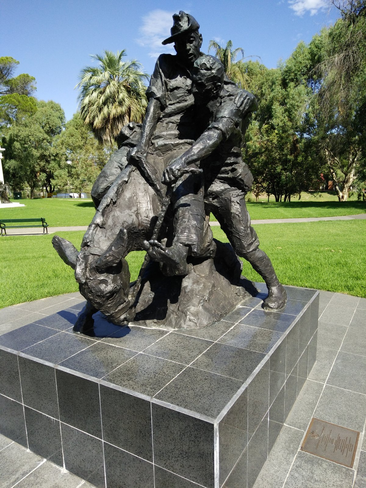 Simpson and his donkey by Robert Hannaford, located in the Angas Gardens (Adelaide Park Lands)